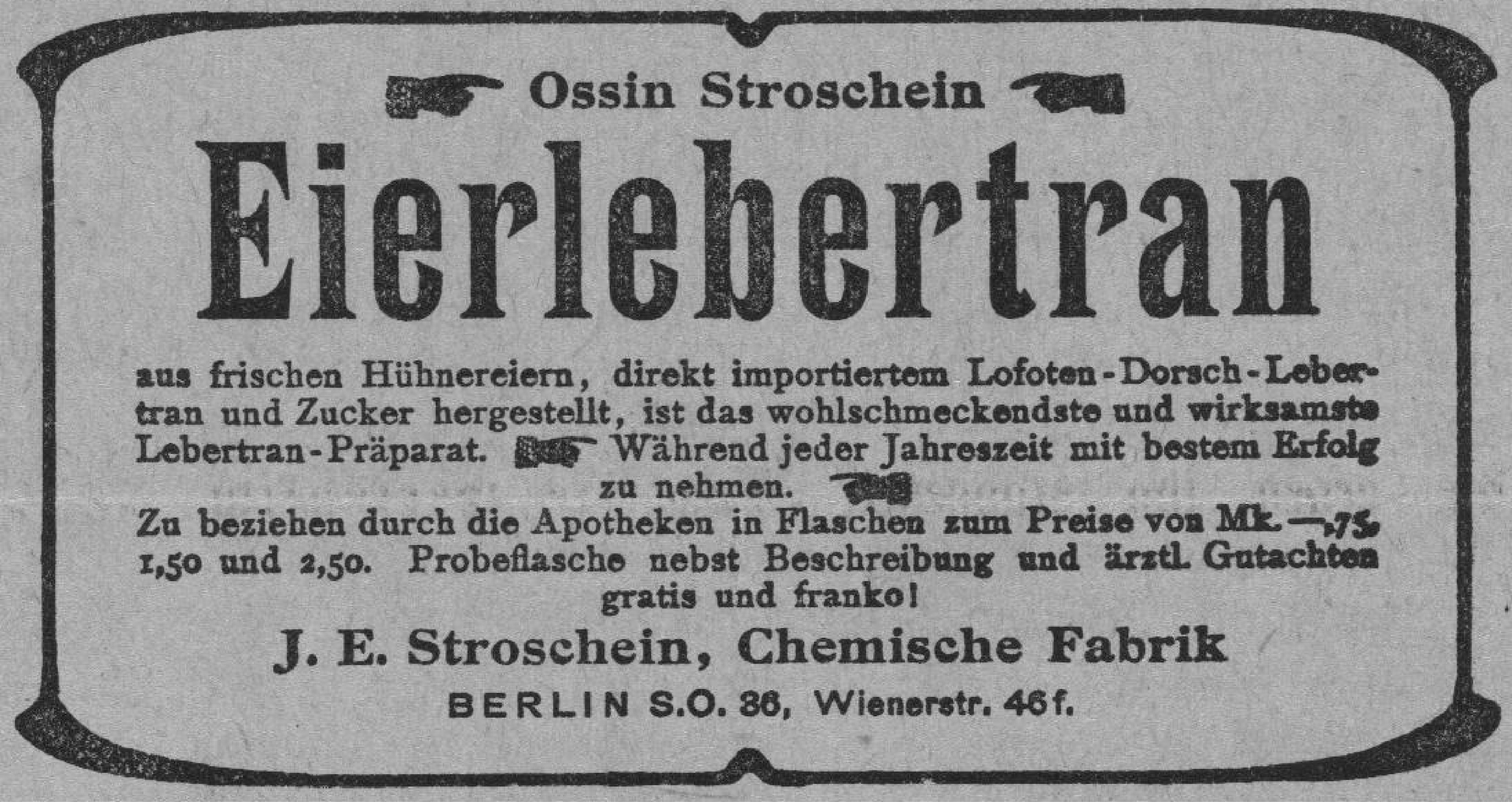 Scan from the Dresdner Journal, 1906